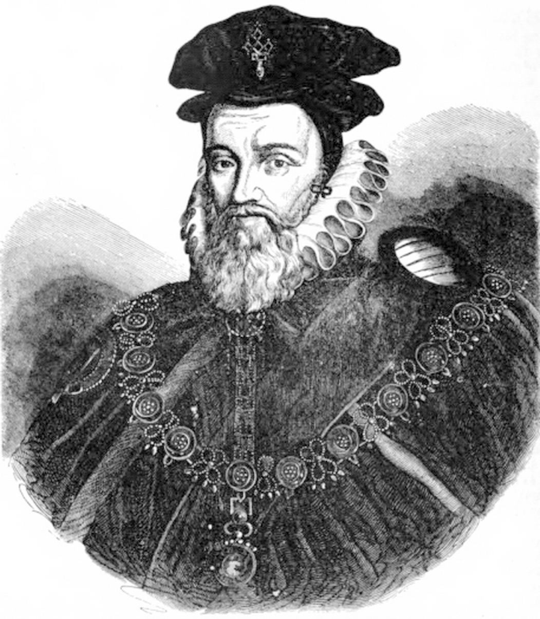 The title is the same as the image caption above & in "Cassell's Illustrated History of England, Volume 2". The number shown is the page number. Follow the image link to the full book vol.2.